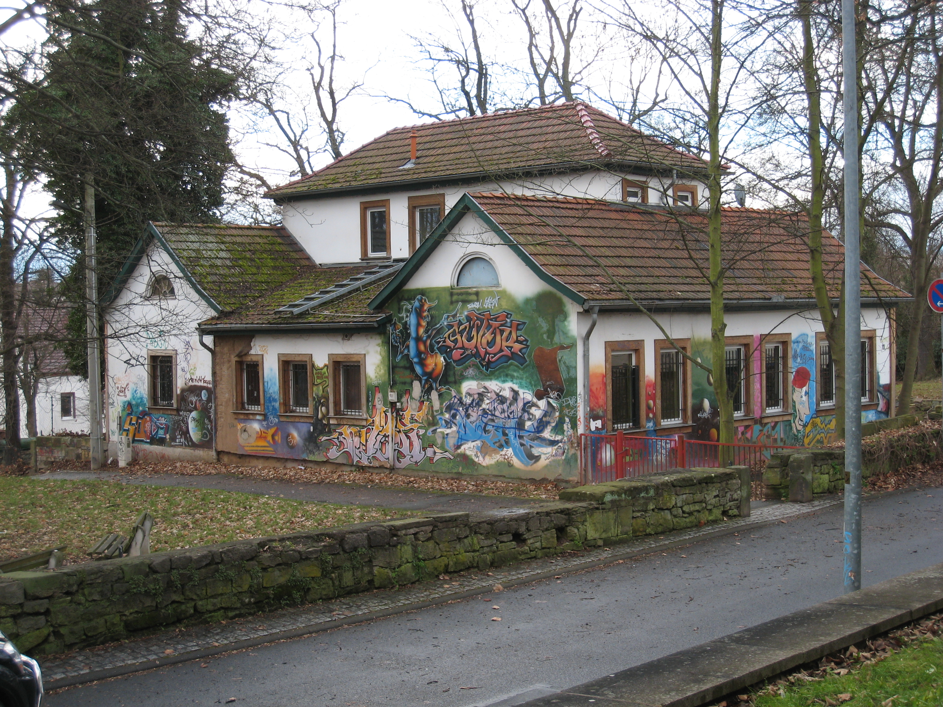 Former mortuary in Gotha, cemetery III